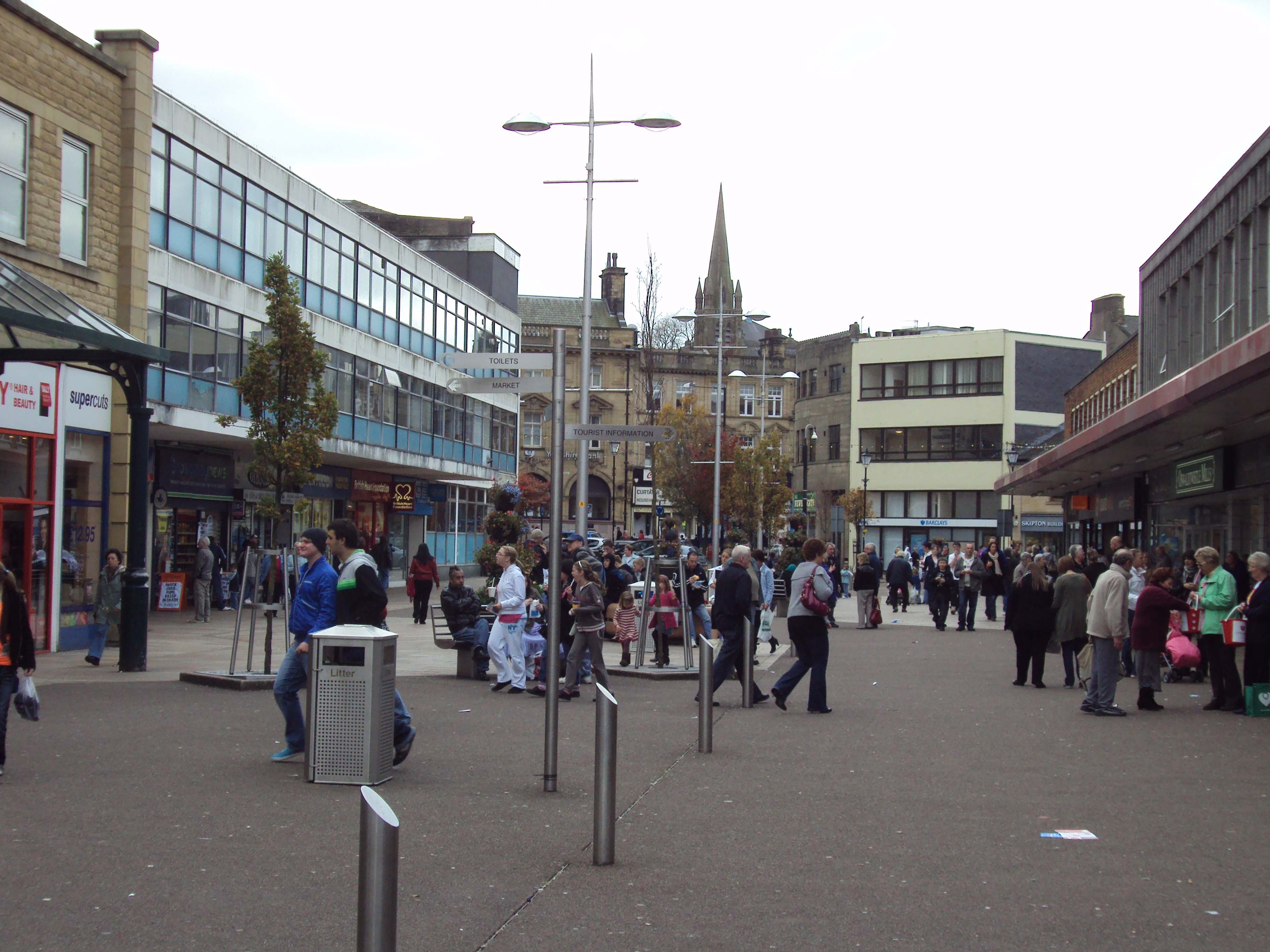 Pedestrianised shopping area, Burnley Road, Accrington, Lancashire, England.